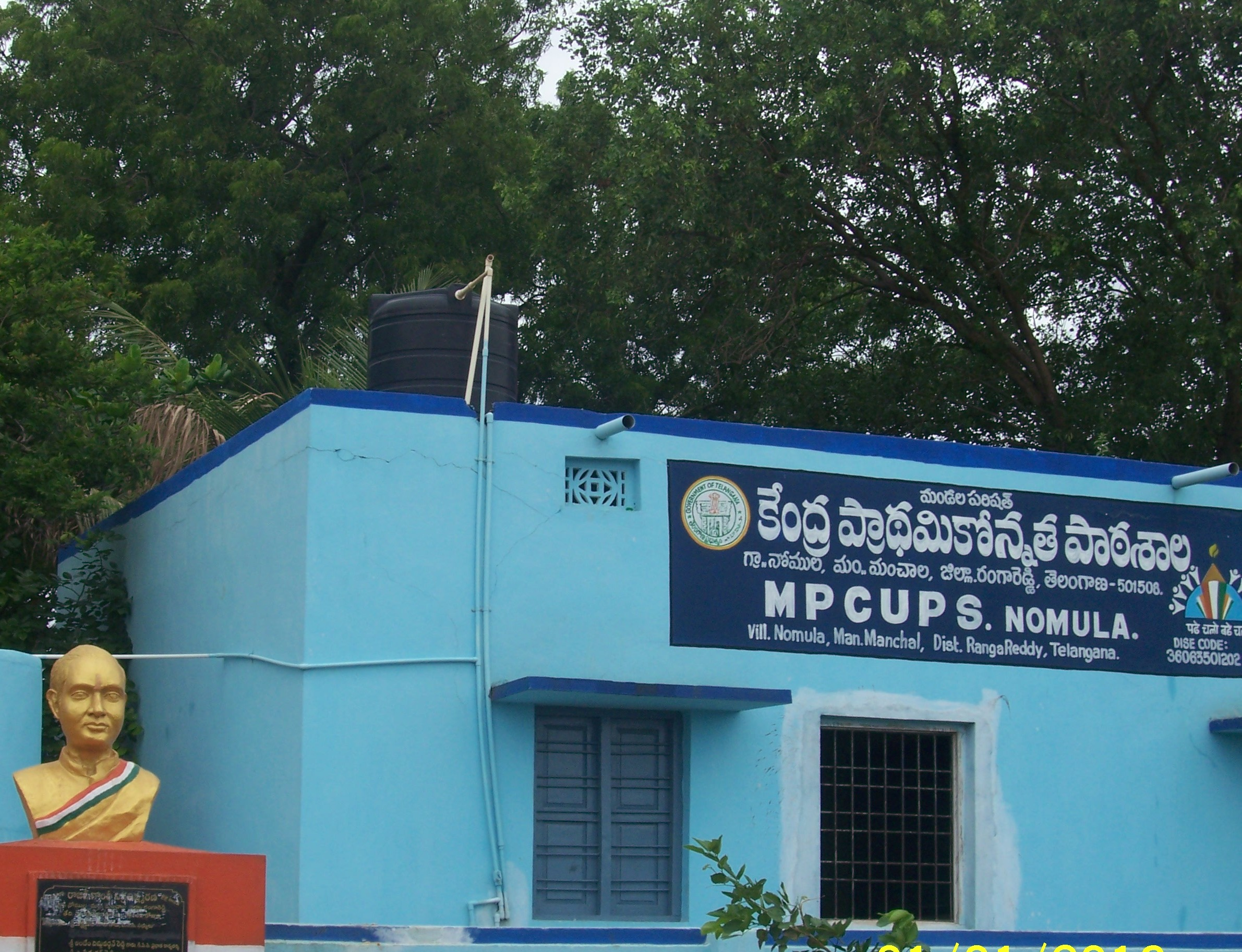 Upperprimary school